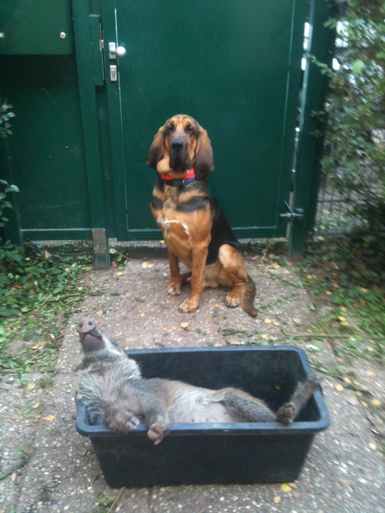 Bloodhound after searching injured prey. (ca. 2015 colorized)